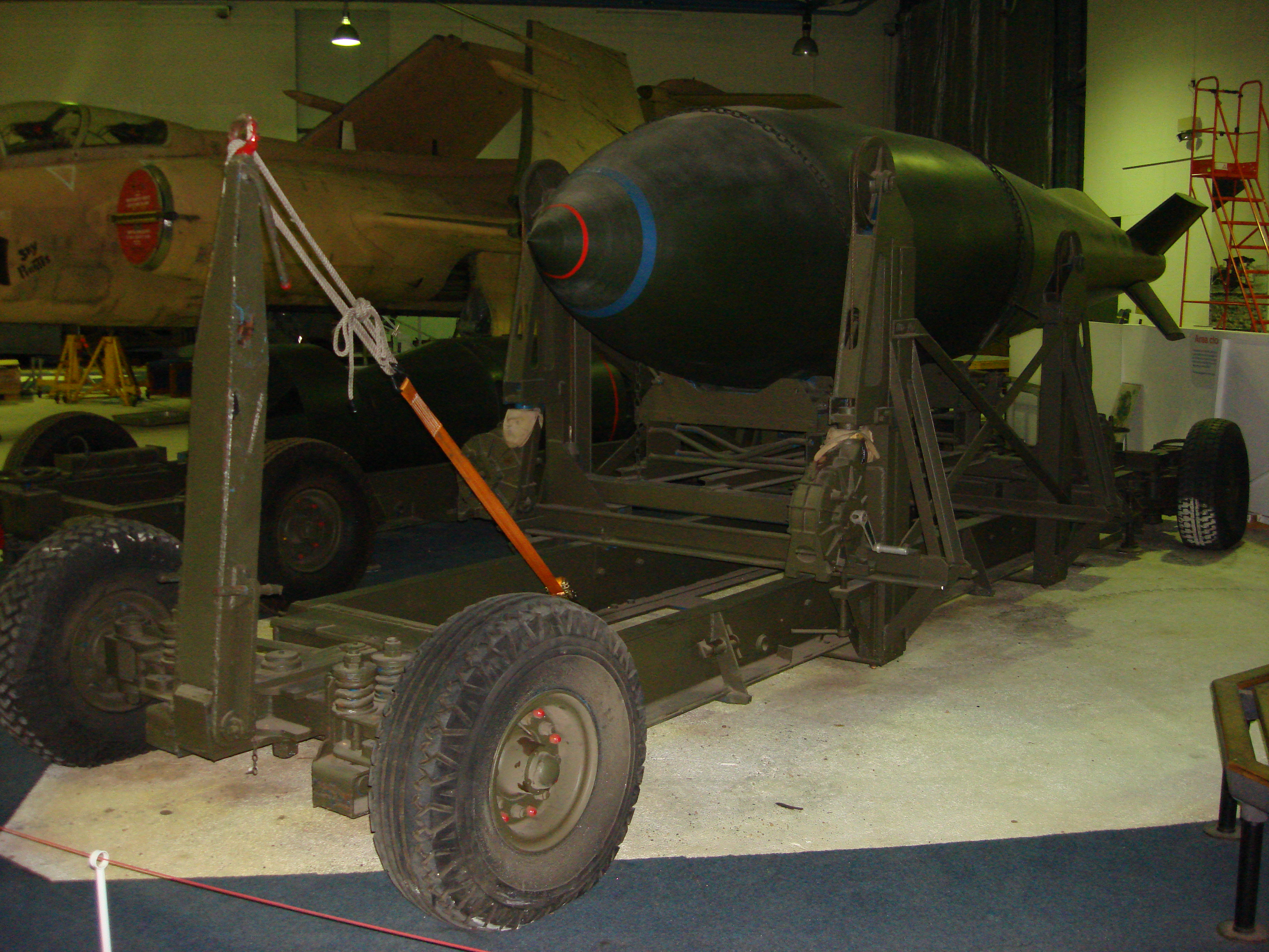 Grand Slam bomb, a 22,000 lb earth quake bomb used by RAF Bomber Command against strategic targets during the Second World War. at the RAF Museum in London.